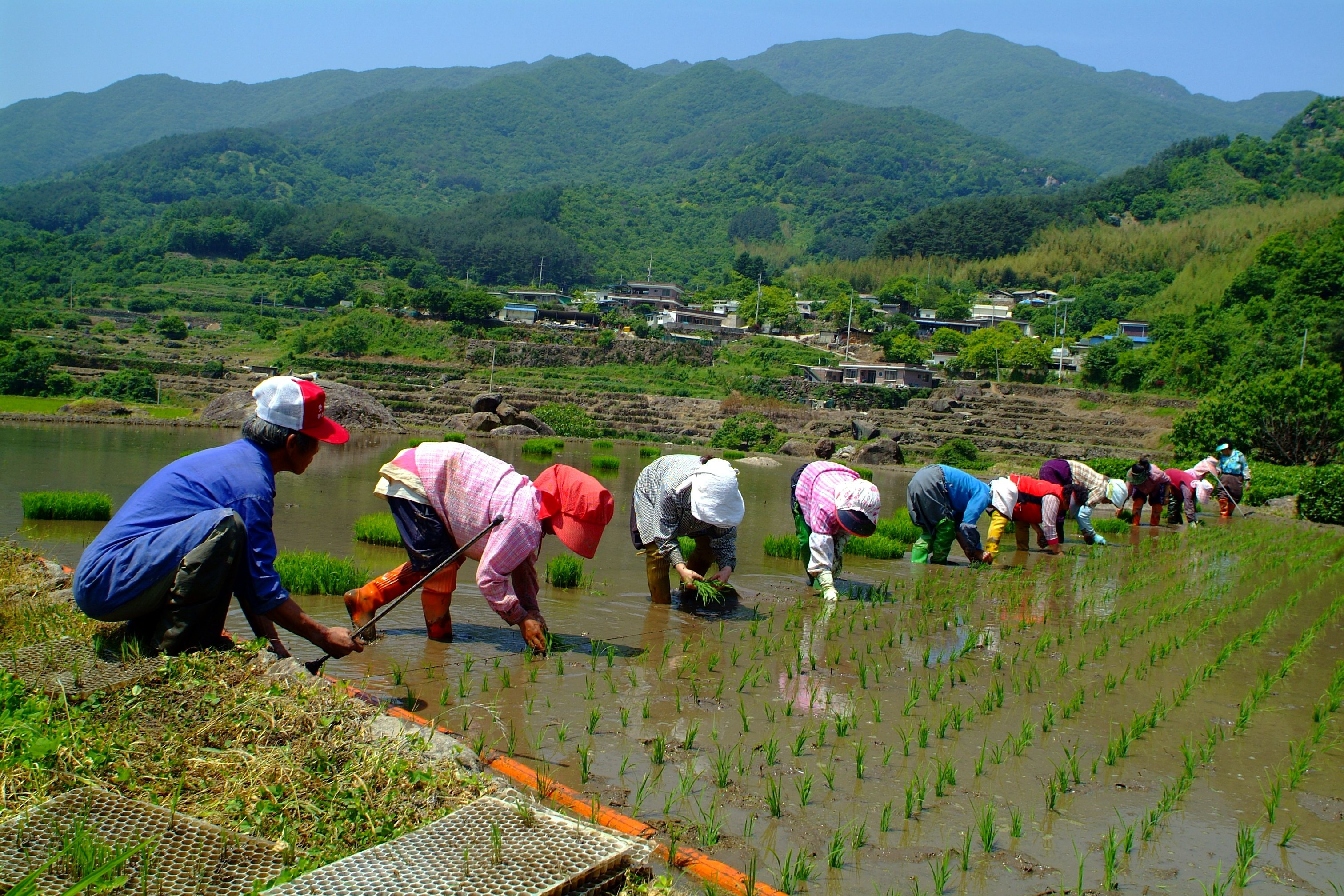 Rice transplantation in Jeolla Province, Korea